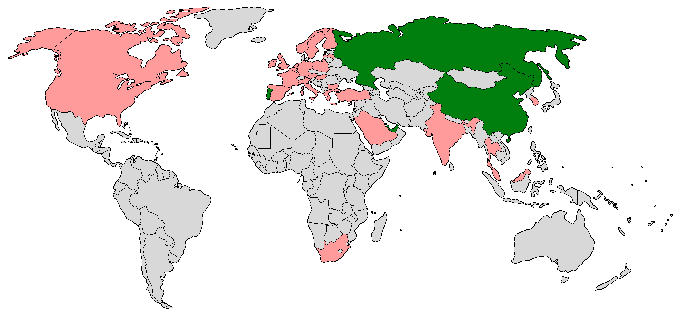 World map displaying the countries raced in by the Formula 1 Powerboat World Championship in its 2010 season in green. Former host nations shown in pink.